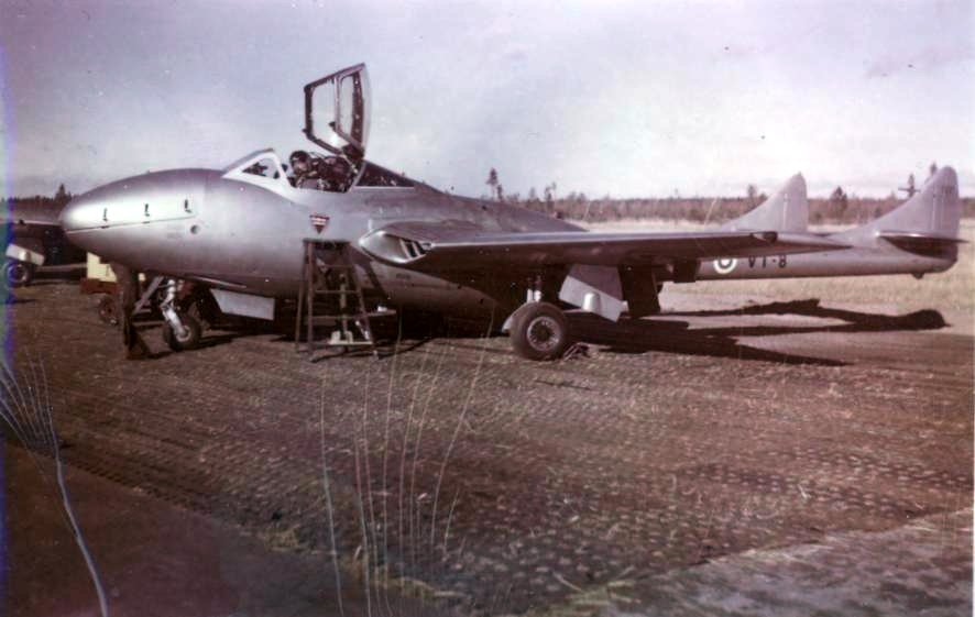 De Havilland Vampire Trainer VT-8 at Luonetjärvi, in the cockpit most likely Colonel Aimo Huhtala